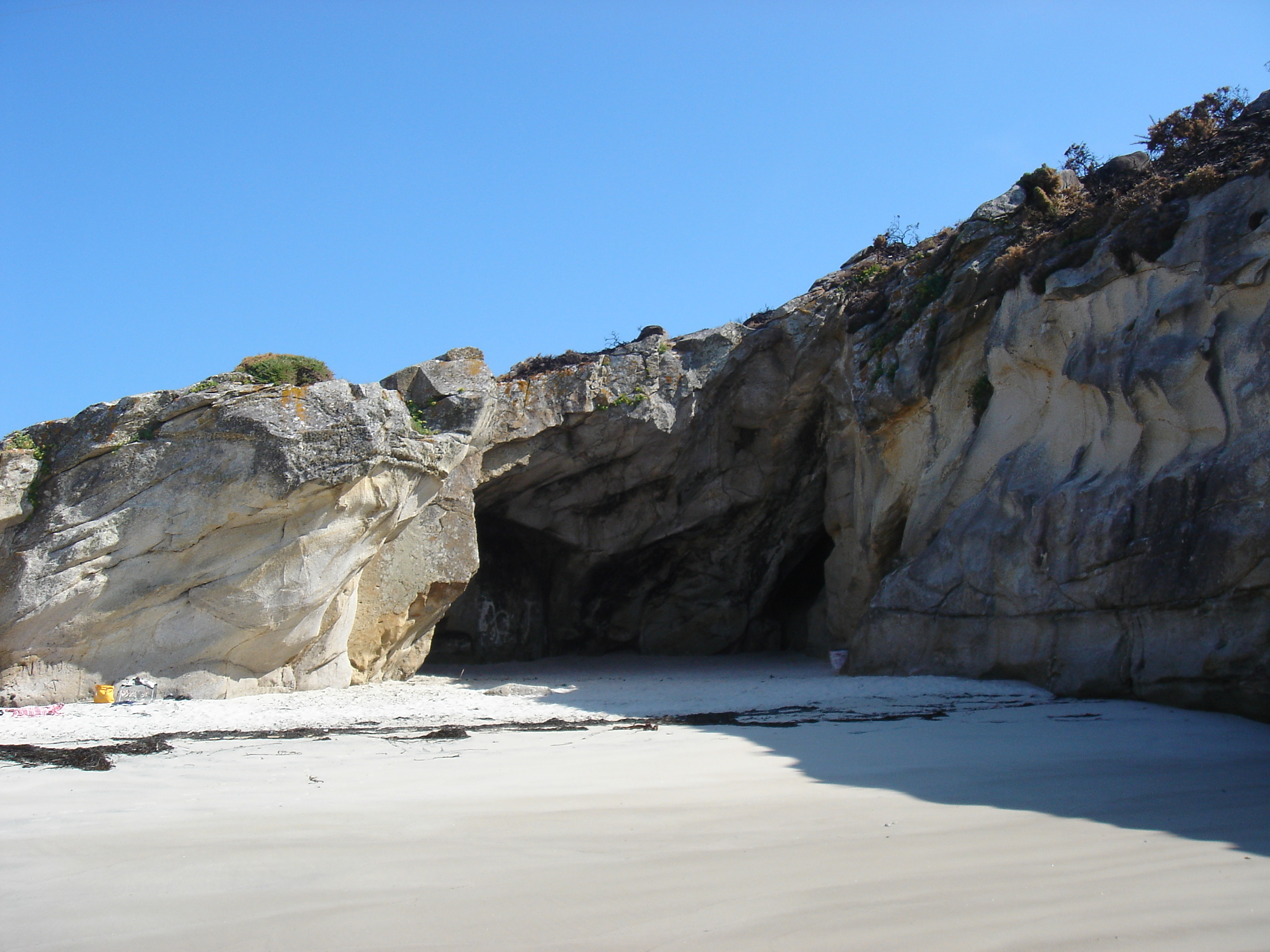 "Furna do Osmo" beach at Corme-Puerto in the northwest of Spain